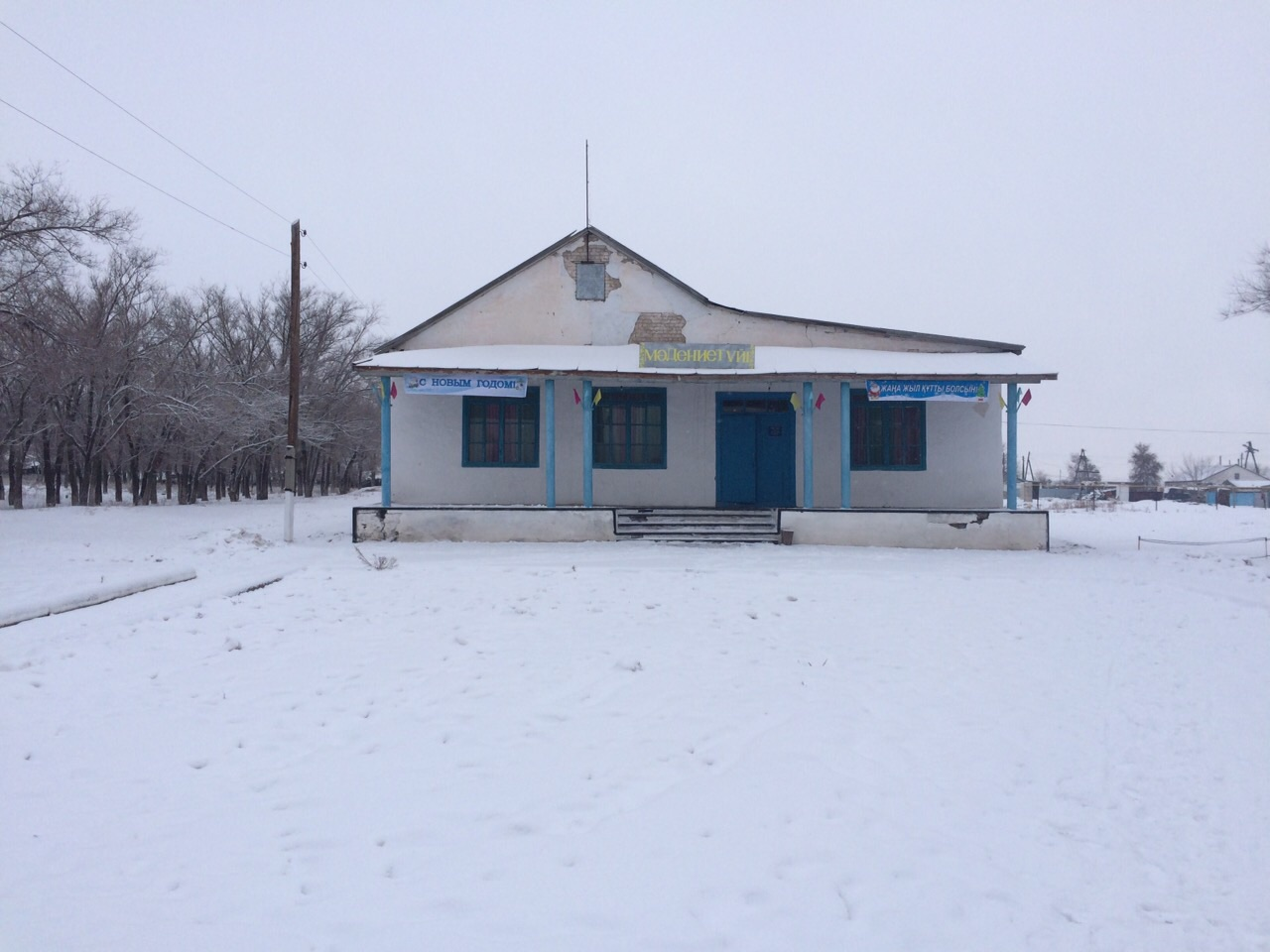 Мәдениет үйі